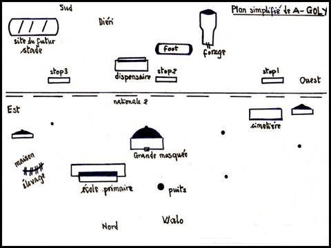 Simple map of Agnam-Goly village, Senegal